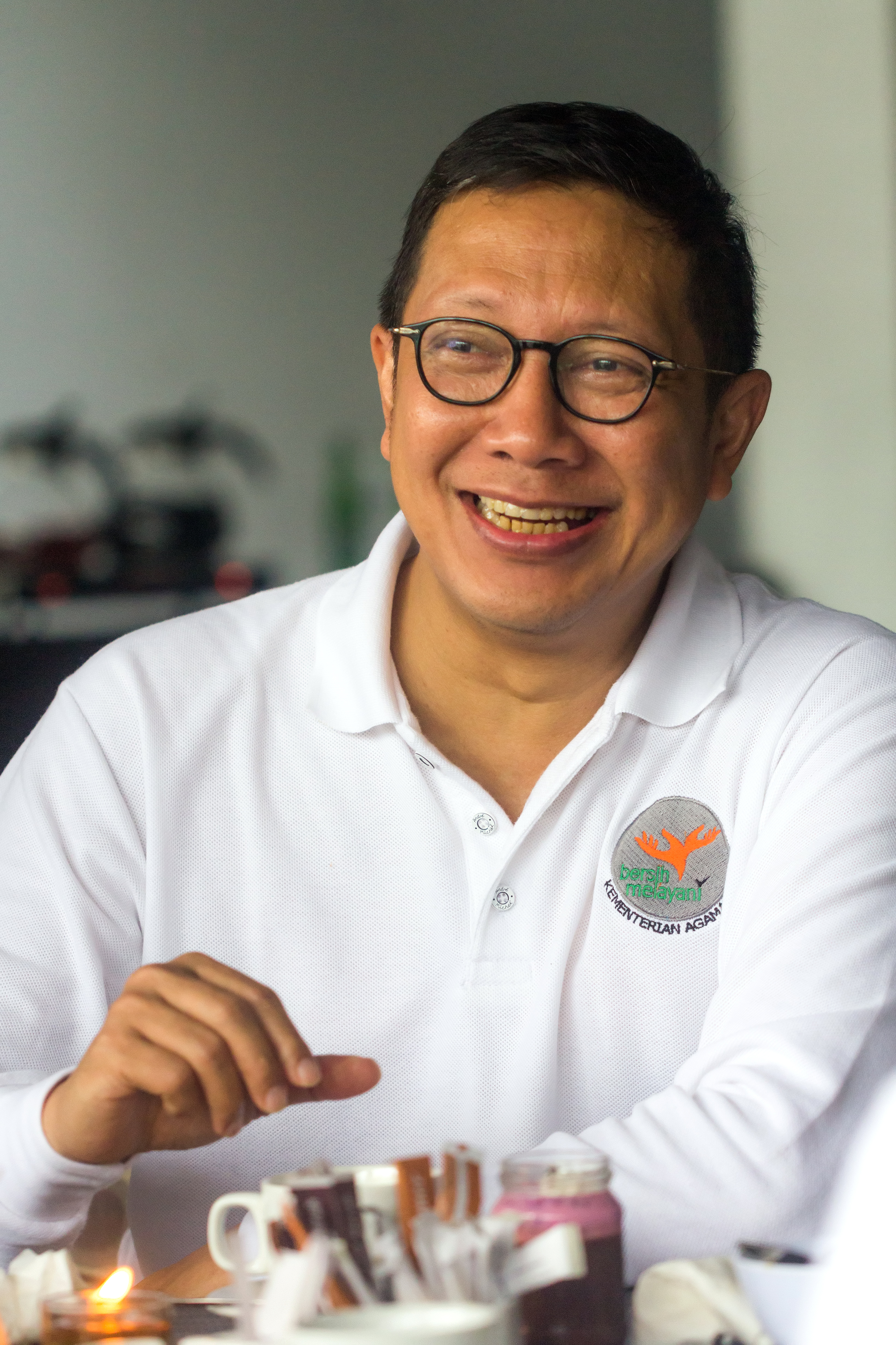 Lukman Hakim Sainuddin at Mercure Hotel, Palu, 2018-09-18 Minister of Religious Affairs in the Second United Indonesia Cabinet of President Susilo Bambang Yudhoyono and Working Cabinet of President Joko Widodo.